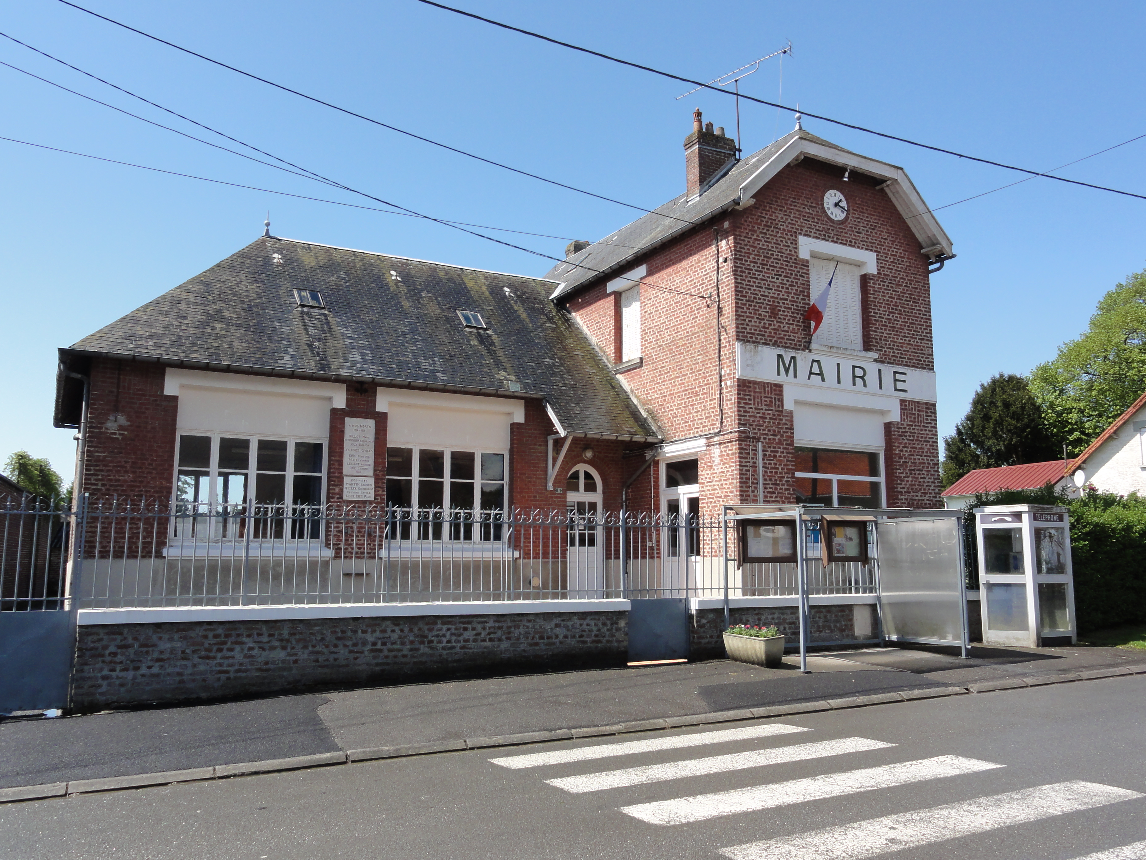 Berthenicourt (Aisne) mairie